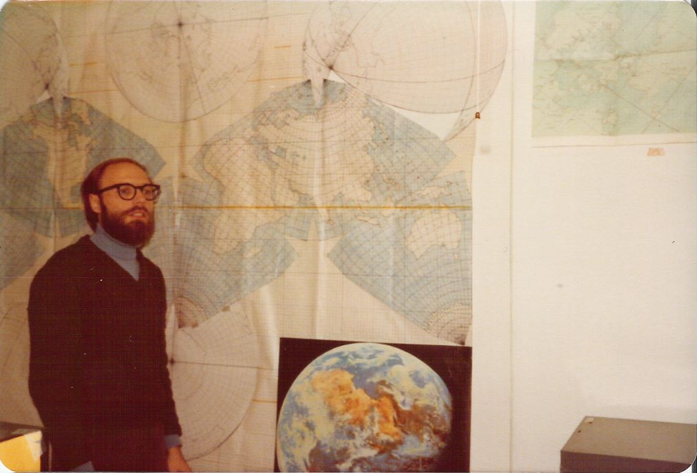 Brandon University Asst. Prof. Gene Keyes working on hand-drawn first draft of Cahill–Keyes World map.